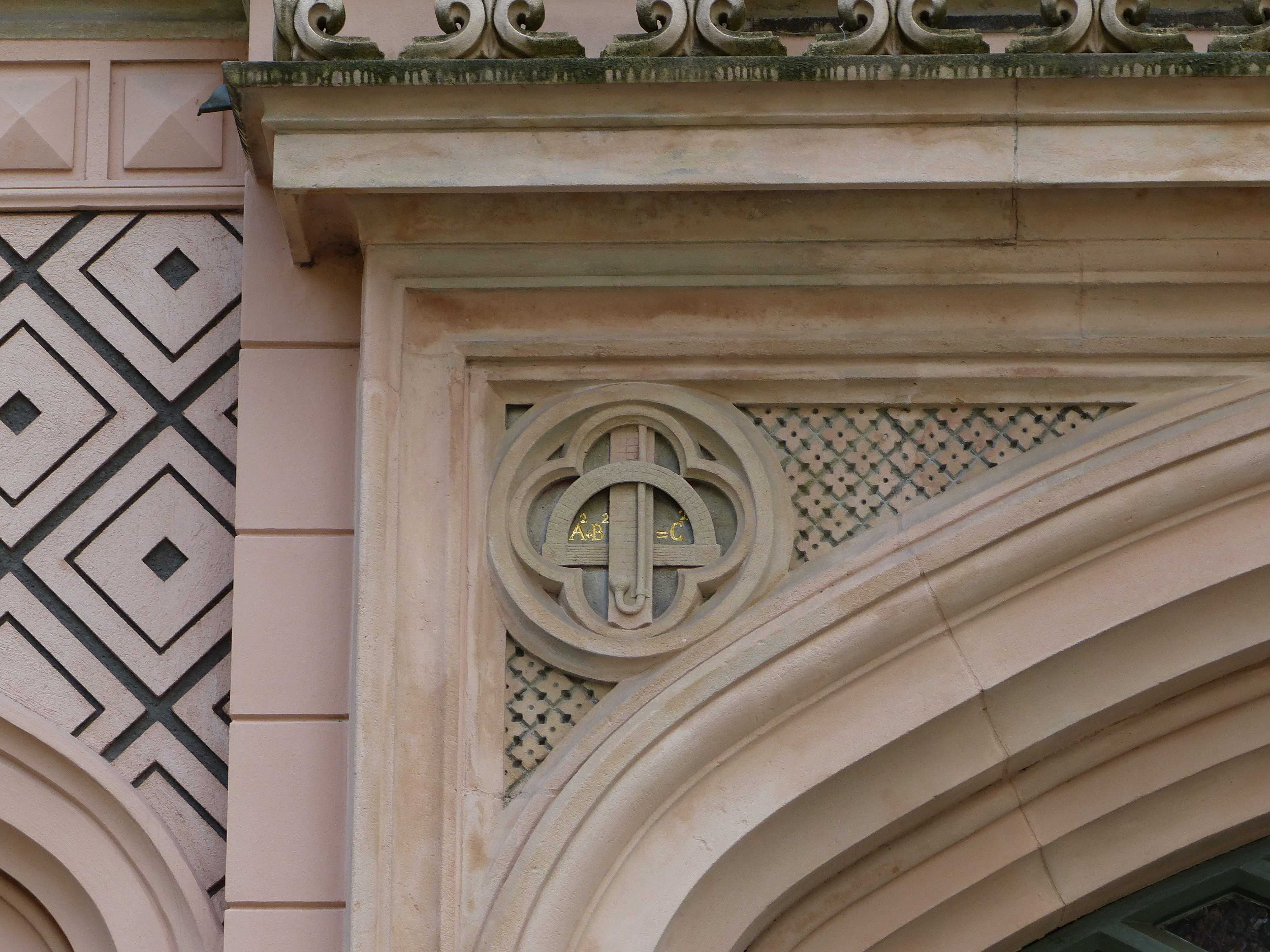 Inscription at the main door of the historical school of the master builder in Zittau the most eastern town in Germany.